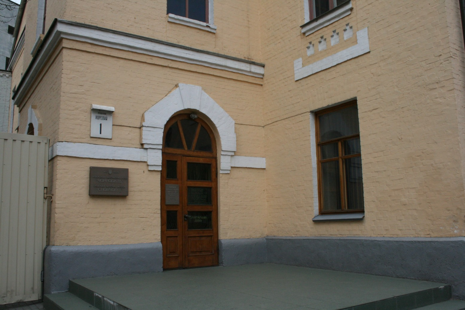 Tchernobyl museum